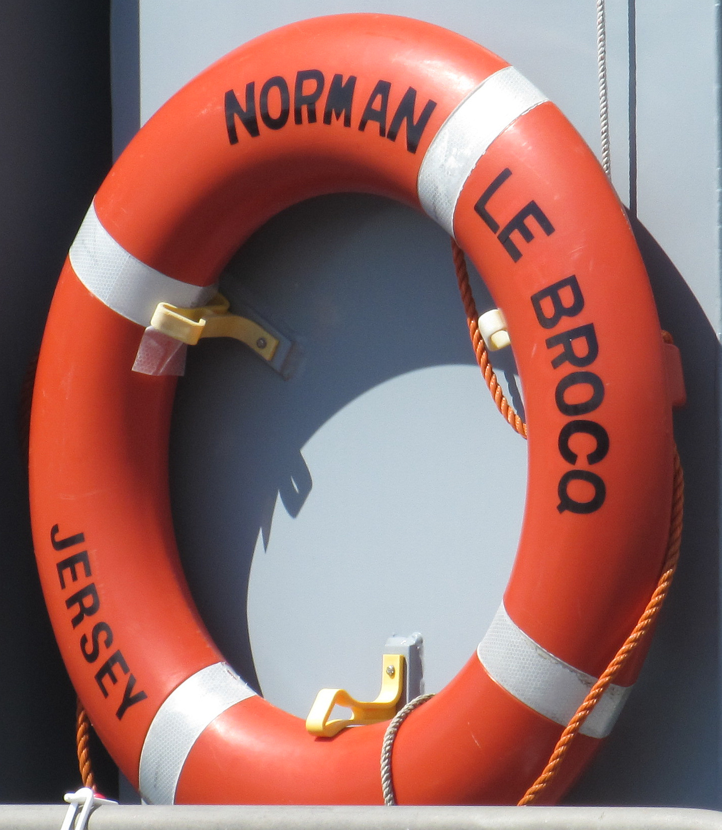 Jersey Boat Show 2013